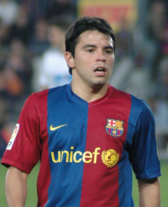 Javier Saviola, FC Barcelona's player, during the match FC Barcelona-RCD Mallorca.